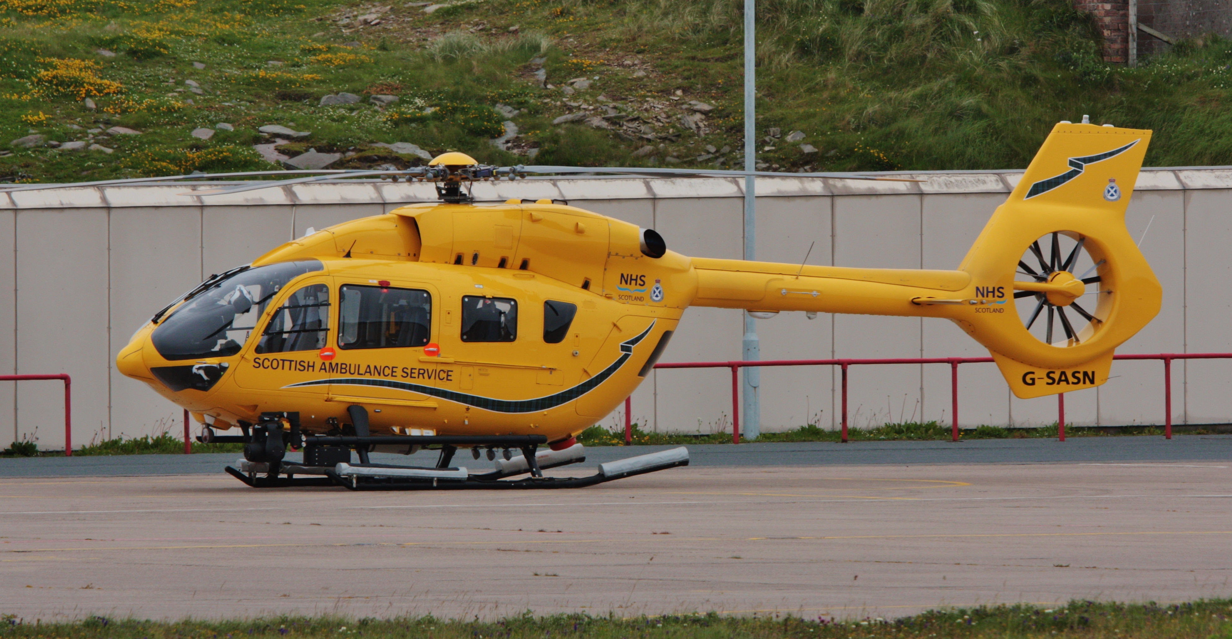 New Scottish Air Ambulance visiting Sumburgh